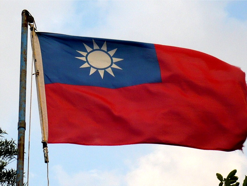 Flying national flag of the Republic of China